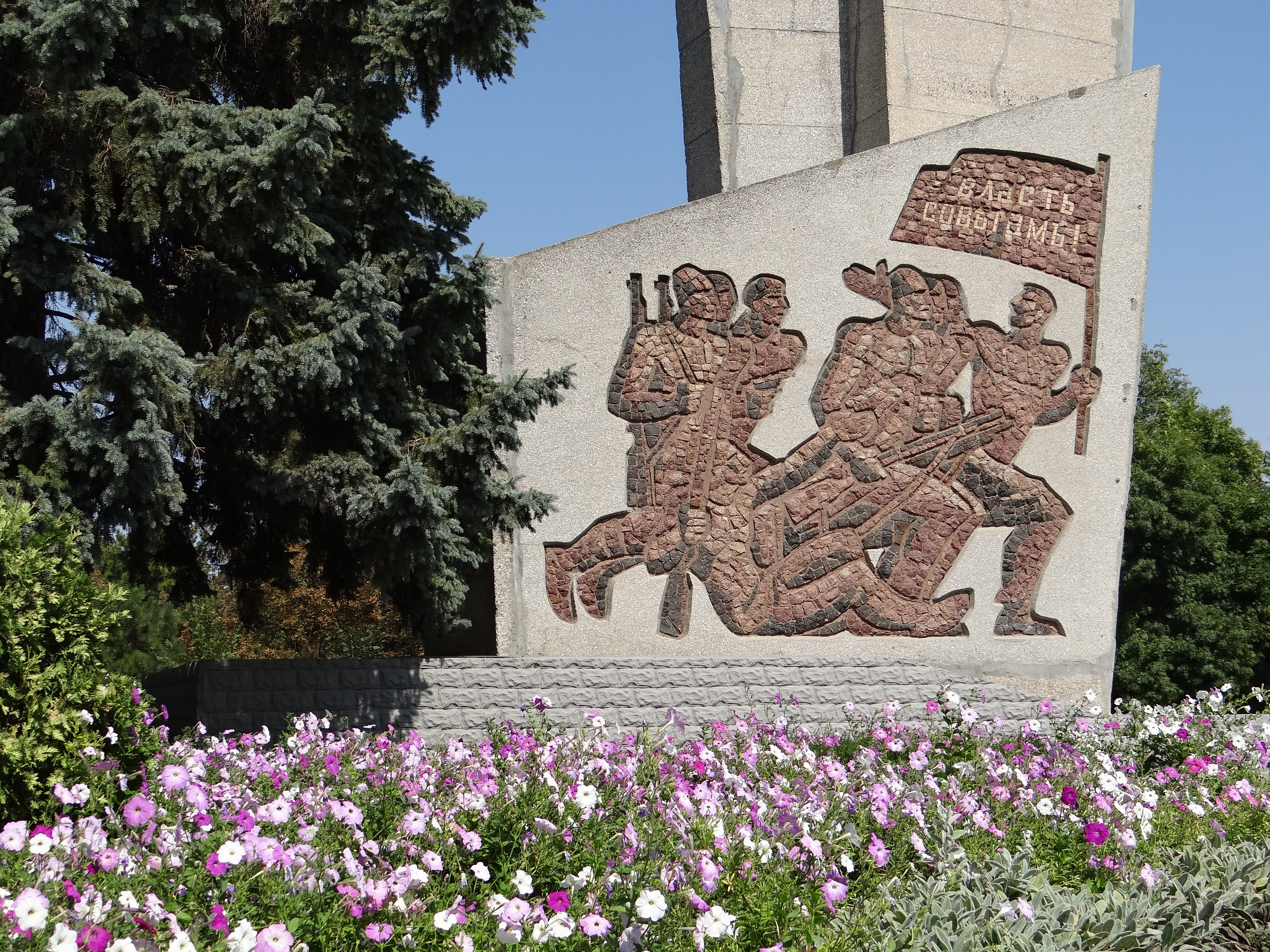 Soviet-Era Memorial with Flower Bed - Bendery - Transnistria